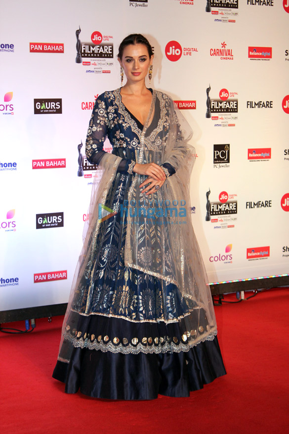 Evelyn Sharma attends the 63rd Jio Filmfare Awards 2018, Jan 21.